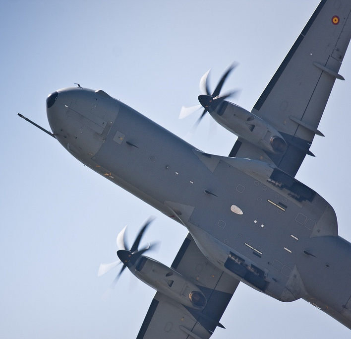 A Spanish Air Force's CASA C-295 in Brno Air Show, september 2008.